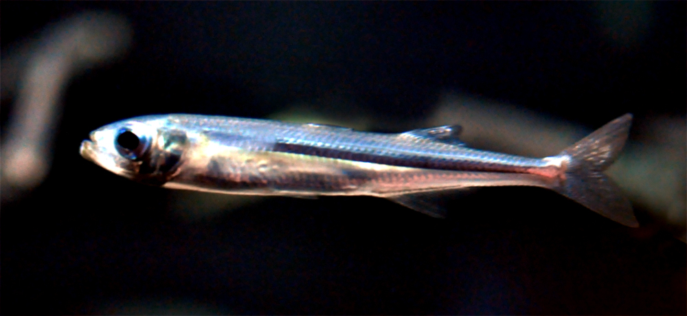 The sand smelt (Atherina presbyter) in the Océanopolis Aquarium, Brest, France